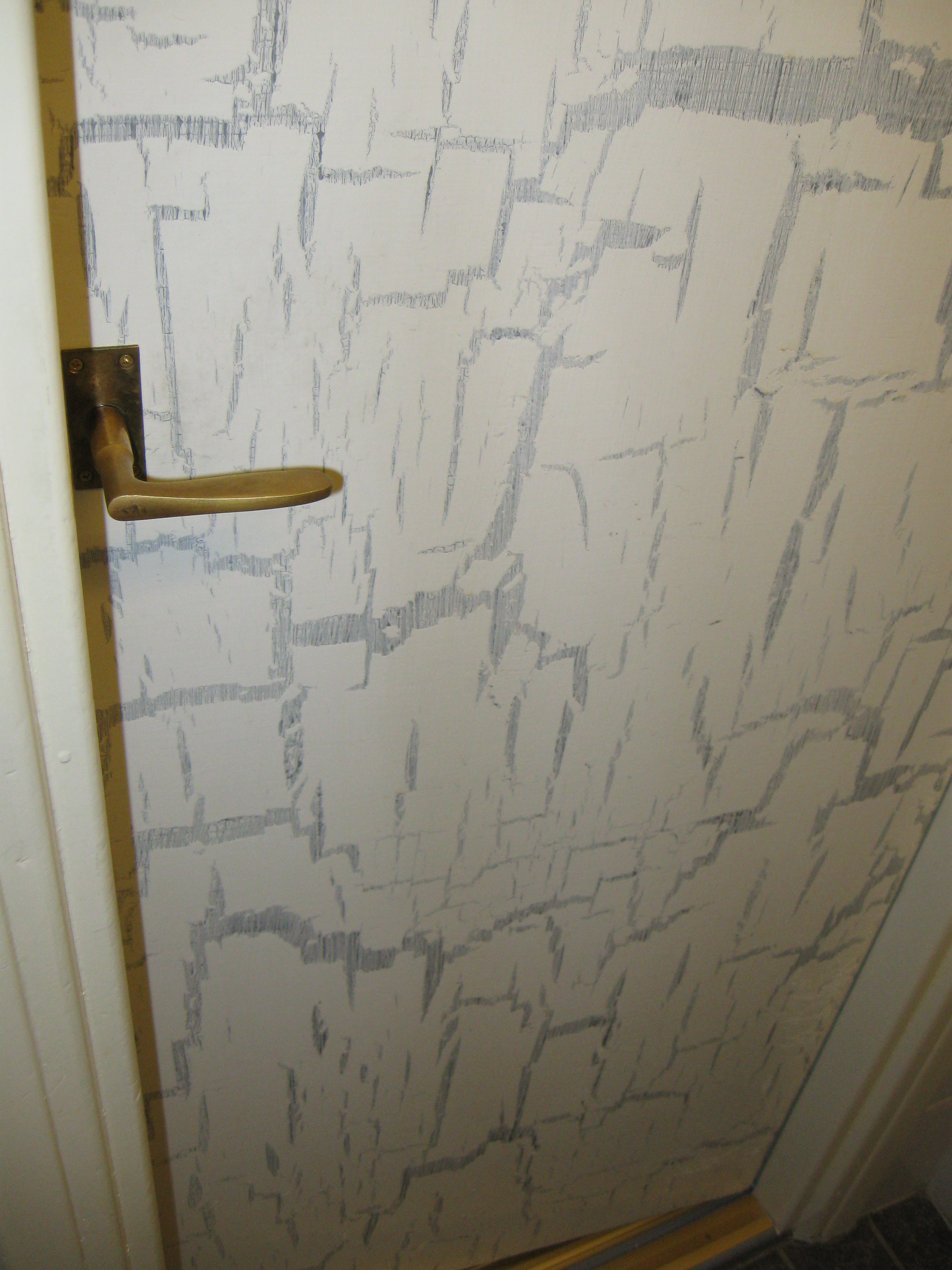 A door with cracking type painting: the upper layer of the paint is drying faster than the lower layer, causing the cracks that imitate a worn-out surface.